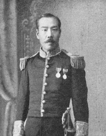 Sanefusa Honda